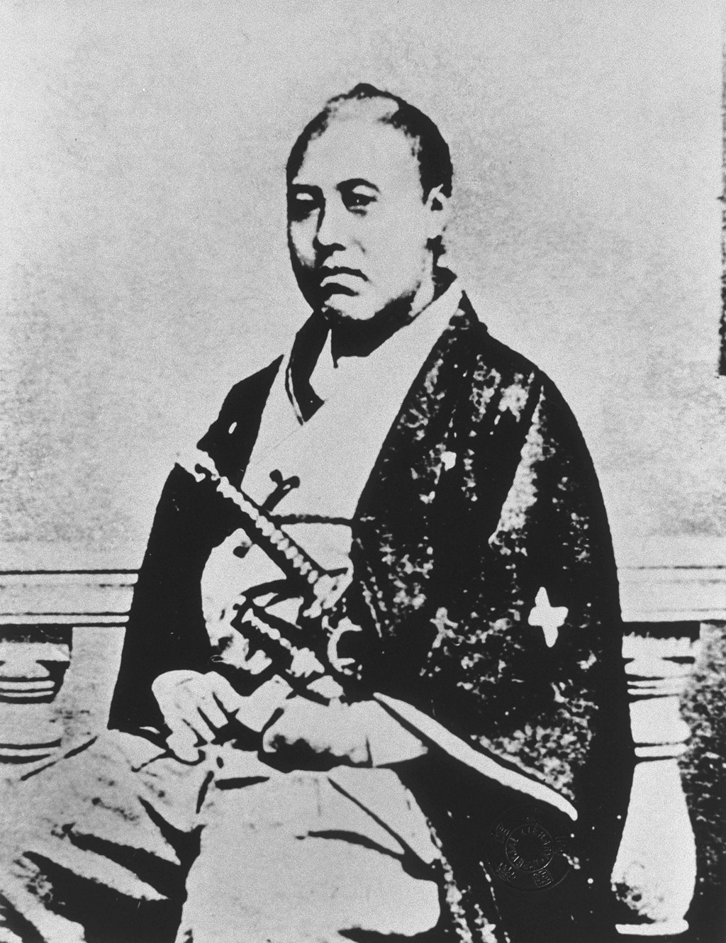 Portrait of Hirosawa Saneomi (広沢真臣, 1834 – 1871)